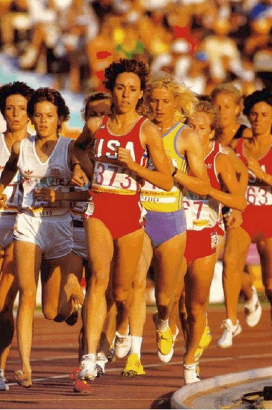 Left-right: Zola Budd, Mary Decker, Maricica Puică, 3000 m, 1984 Olympics